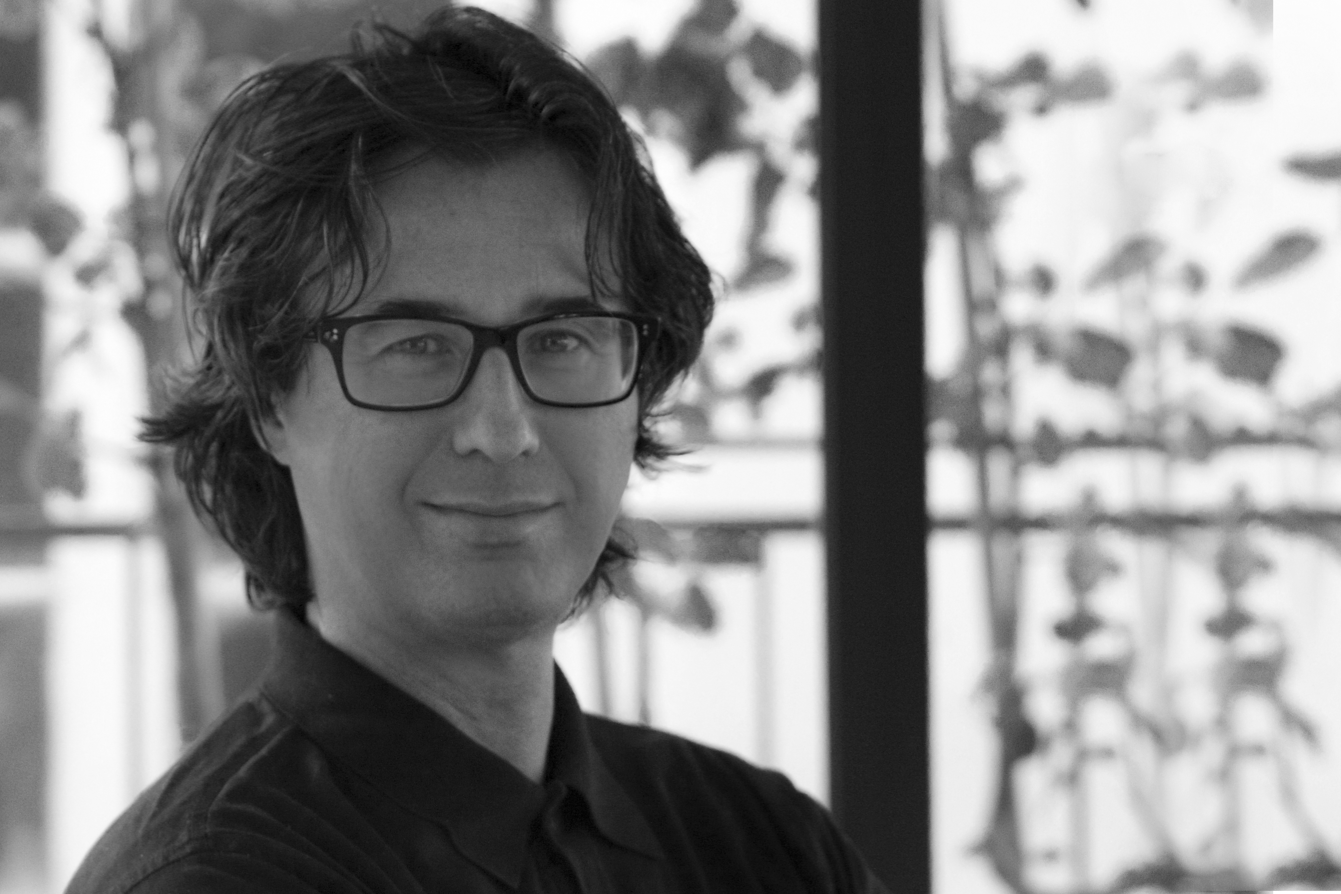 This picture is showing Horst Lechner, an austrian architect.